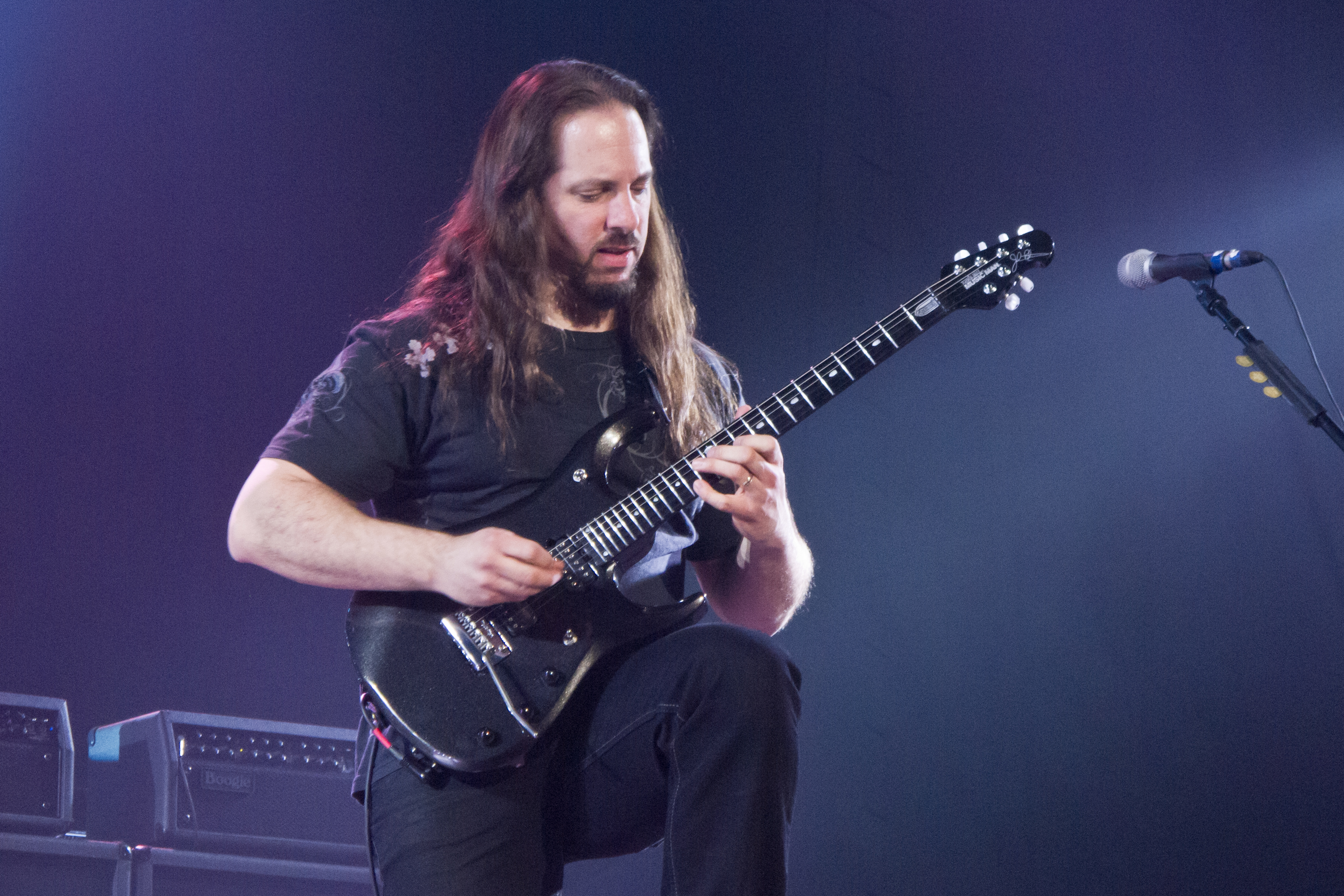 John Petrucci in concert with Dream Theater in 2012.